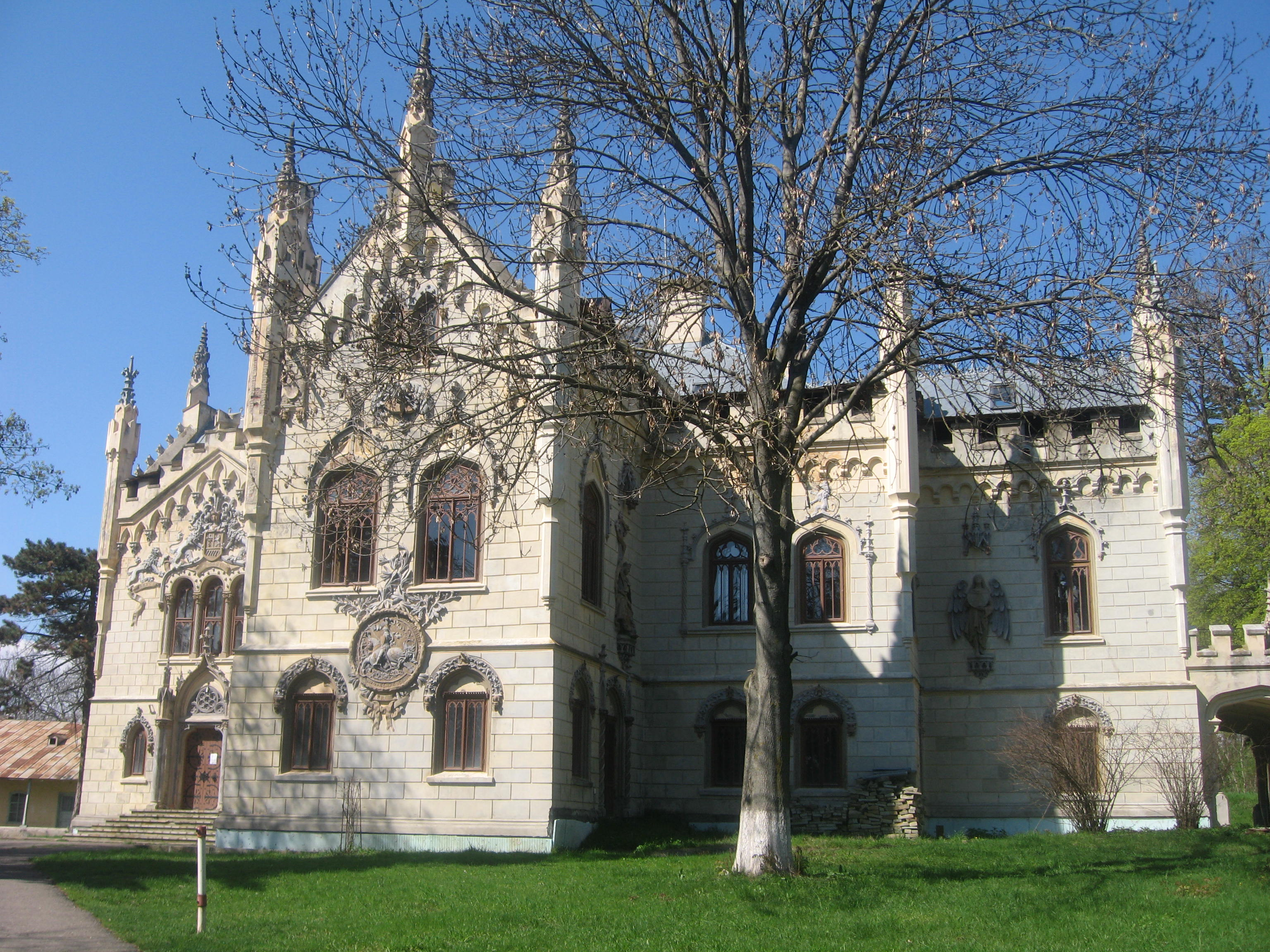 Sturdza Castle of Miclăuşeni